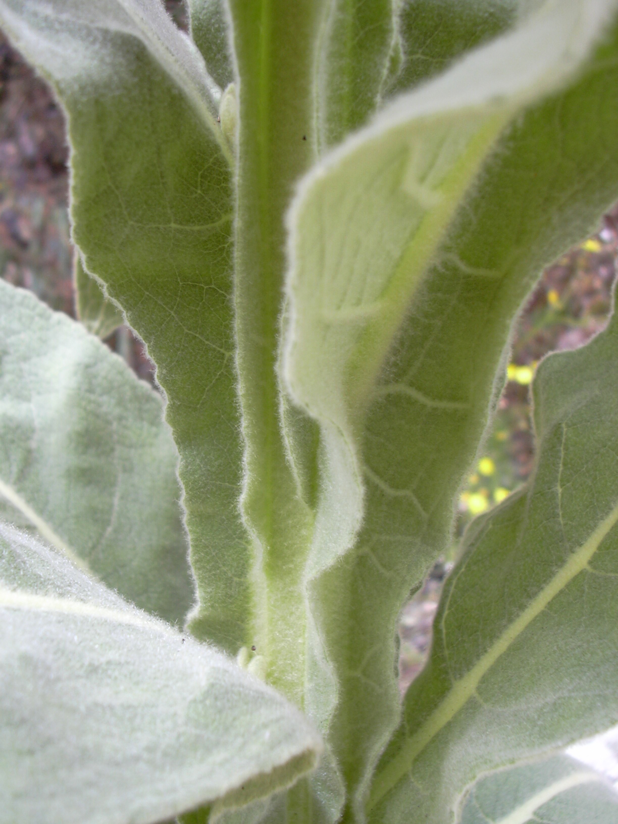 Verbascum thapsus (leaves). Location: Hawaii, Puu Mali